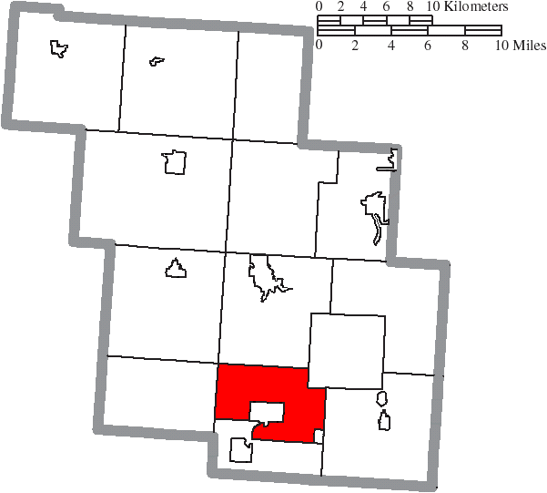 Map of the municipal and township boundaries of Perry County, Ohio, United States, as of the 2000 census, with the location of Salt Lick Township highlighted. Township borders are shown only in unincorporated areas in order to differentiate incorporated and unincorporated areas more clearly.